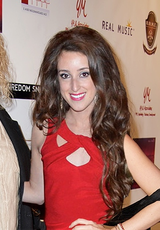 Beverly Hills, CA